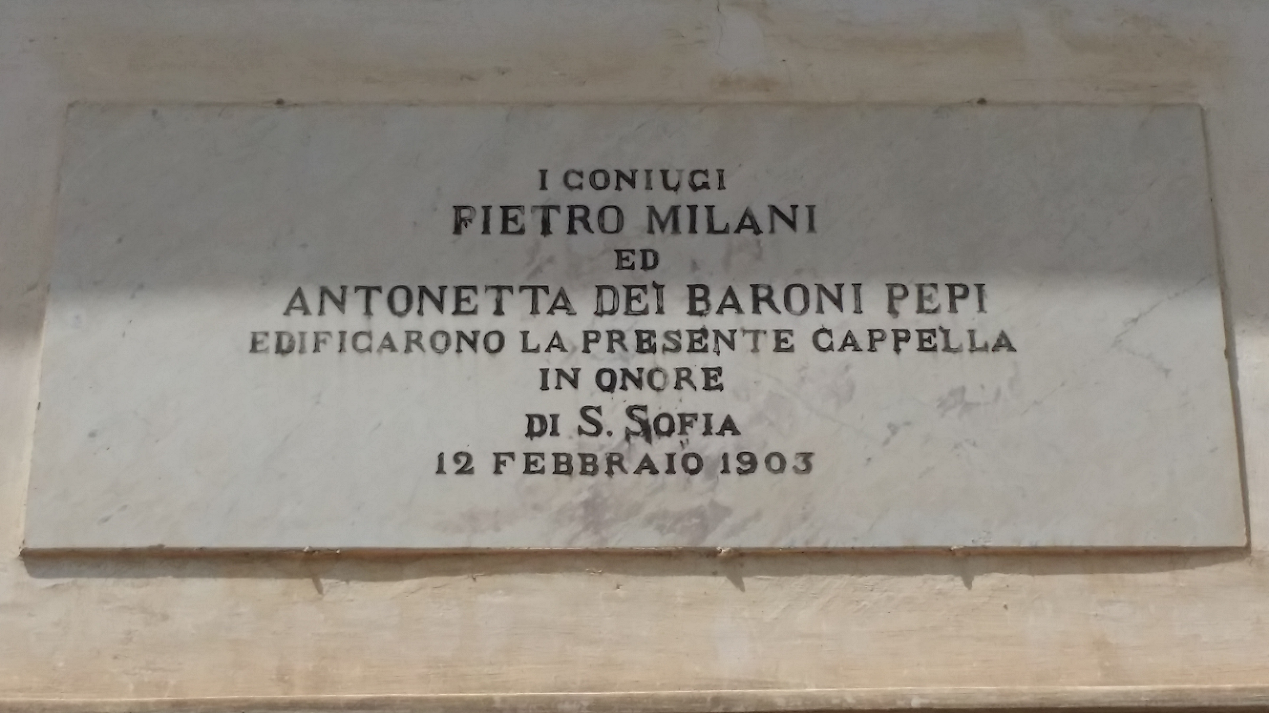 Stone sign posted above the entrance door of the chapel of Santa Sofia, indicating its foundation by the barons and spouses Pietro Milani and Antonetta Pepi in Santa Maria di Castellabate (Sa).